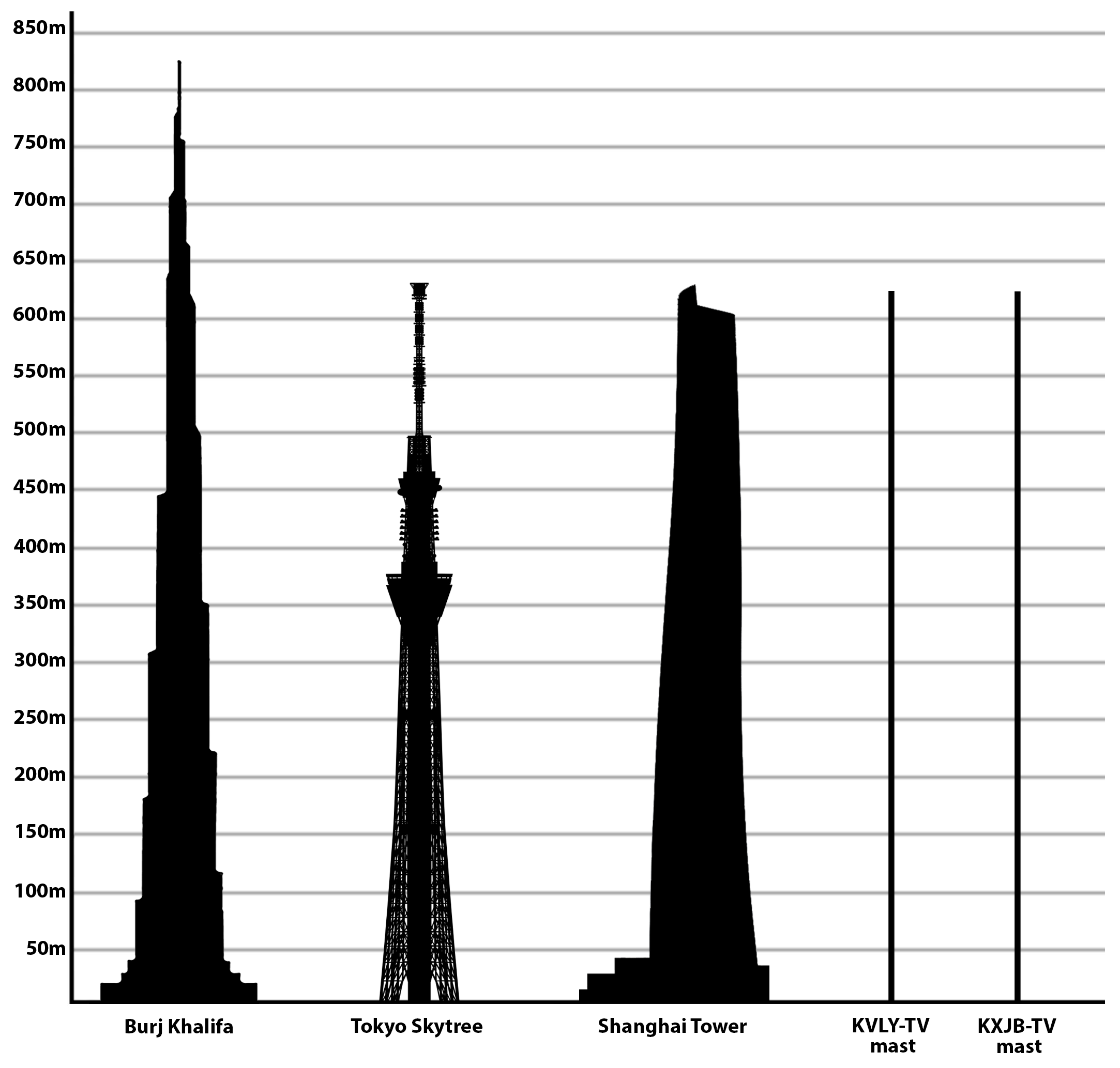 Tallest structures in the world; Used data base on Wikipedia.